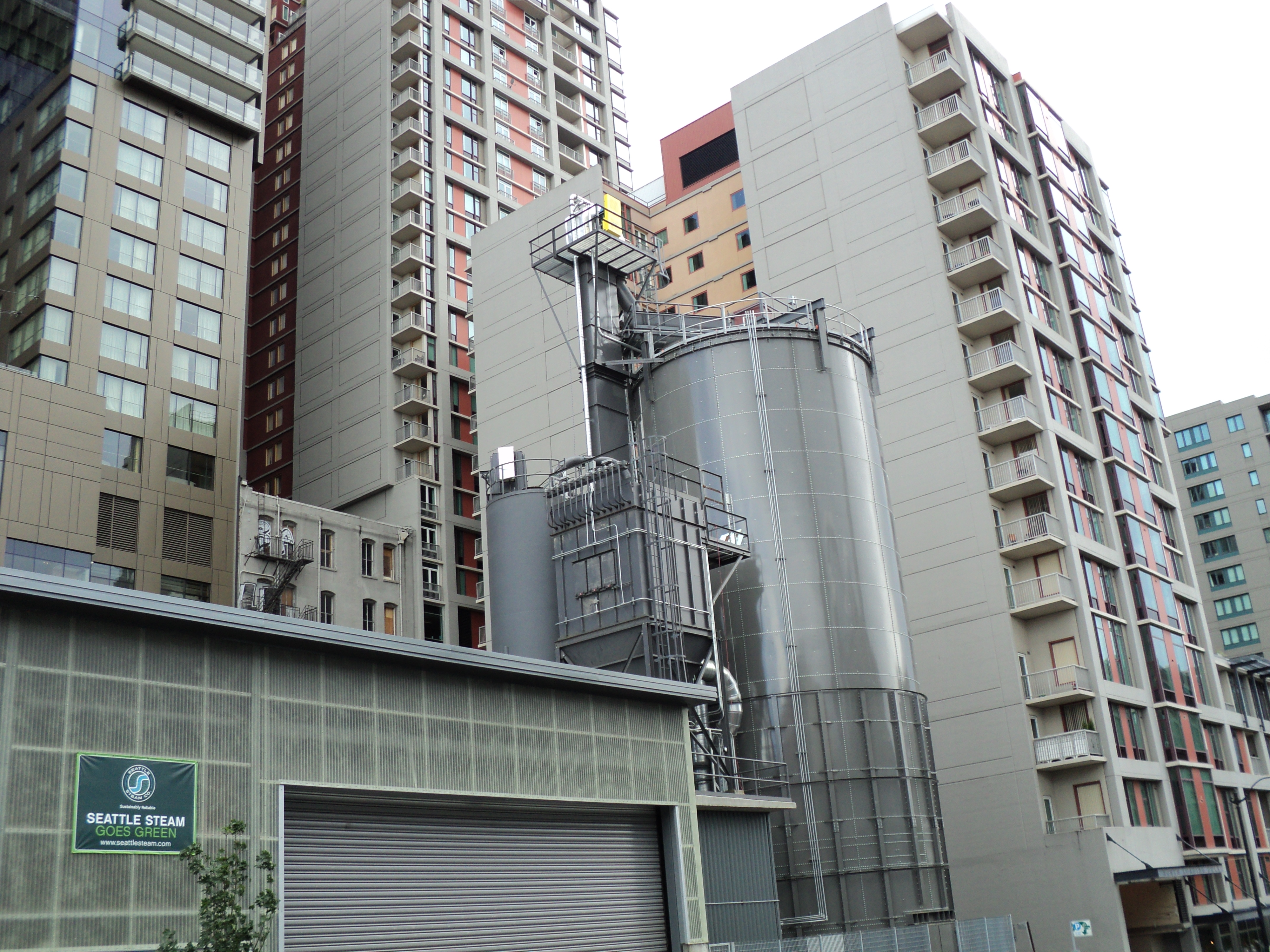 View of the new Seattle Steam plant on Western Avenue, downtown Seattle, Washington.